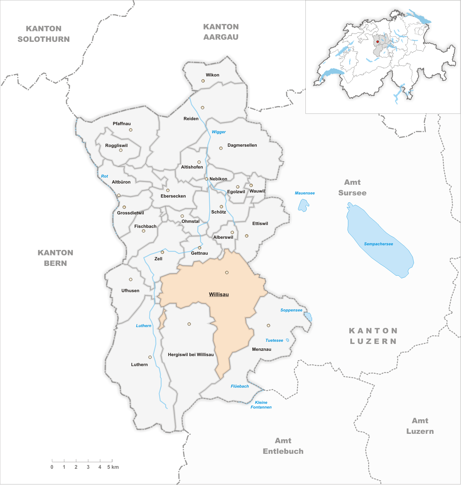 Municipality Willisau